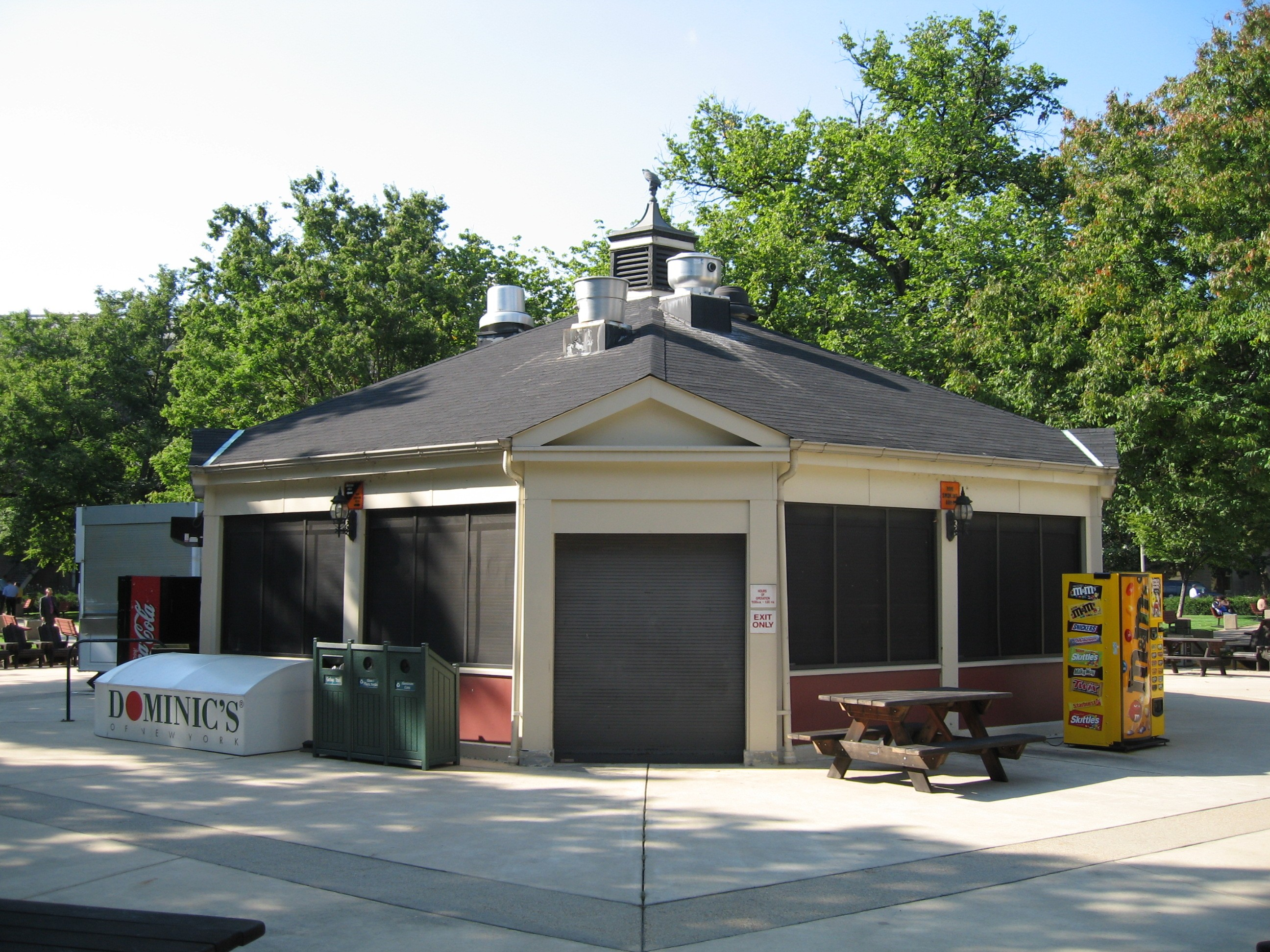 From source: Pentagon Cold War Legend to be Torn Down The hot dog stand in the Pentagon's center courtyard, which has long been a source of Cold War speculation, folklore and legend, will be torn down in the coming months. During the Cold War, the Soviets reportedly thought the hot dog stand led to a secret underground bunker. (DOD photo/Steven Donald Smith)